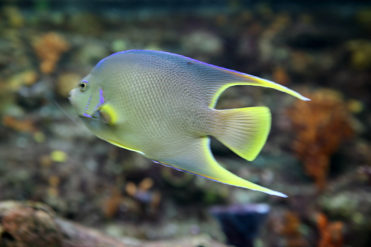 Blue Angelfish (Holacanthus bermudensis)